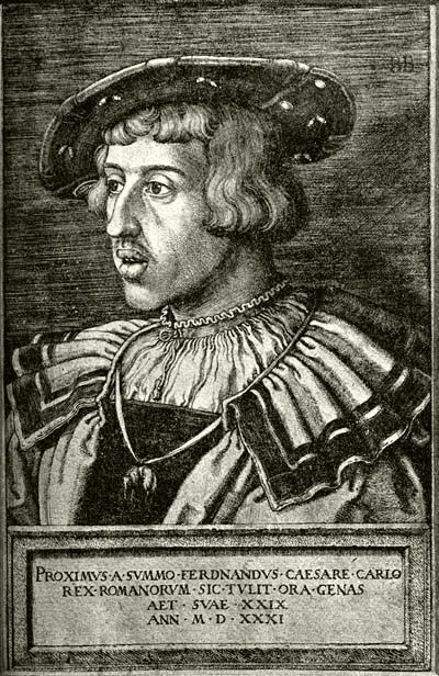 Ferdinand I, Holy Roman Emperor, at age 29 (1531).